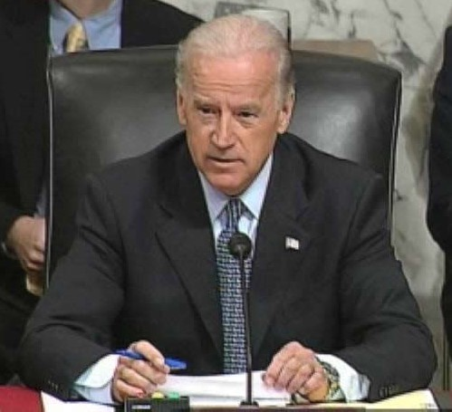 Senator Biden gives his opening statement and questions U.S. Ambassador to Iraq Ryan Crocker and General David H. Petraeus at the Senate Foreign Relations Committee Hearing on Iraq.